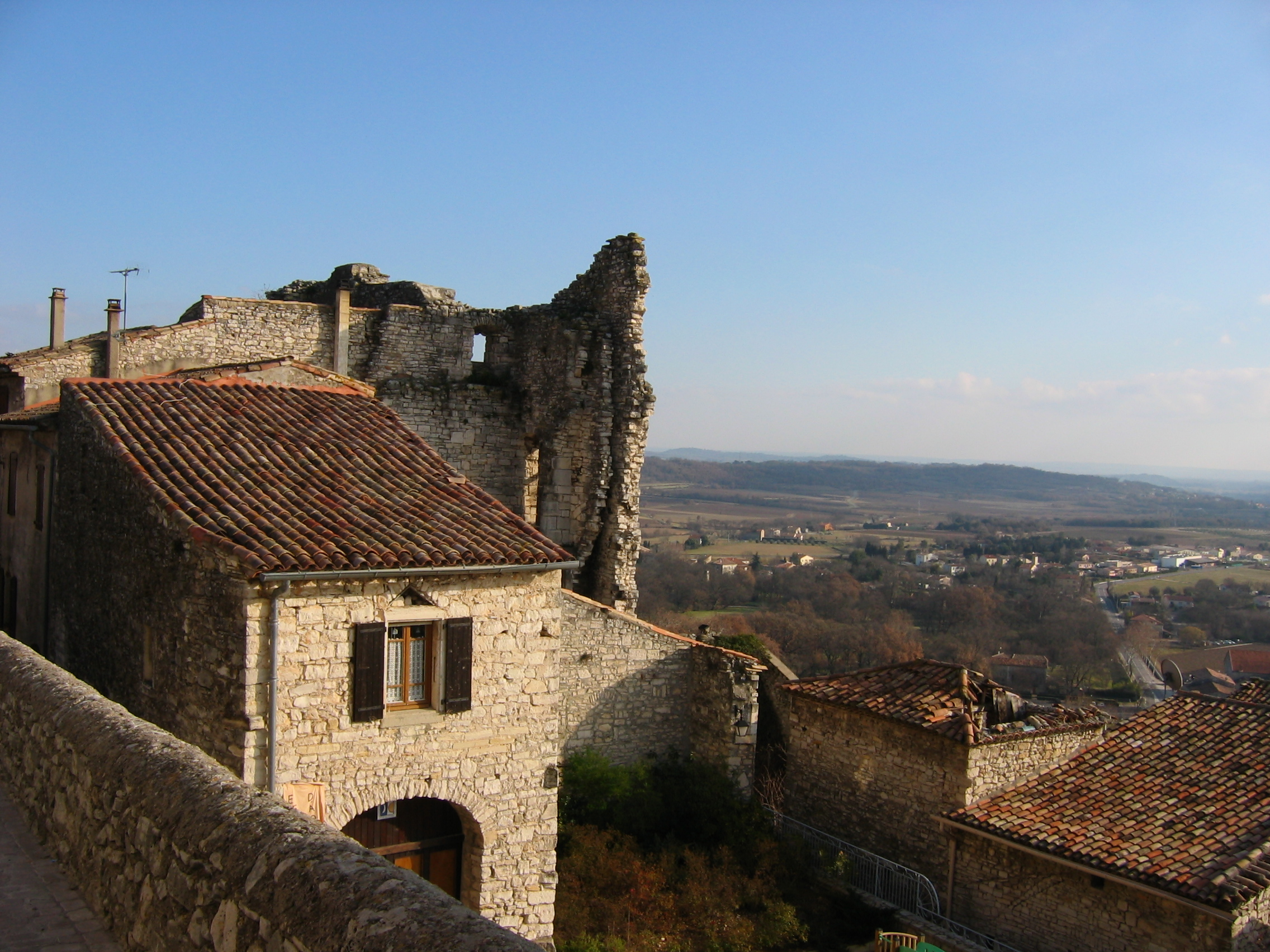 Photo taken by Poppy in January 2006. Vézénobres - Castle in ruins.